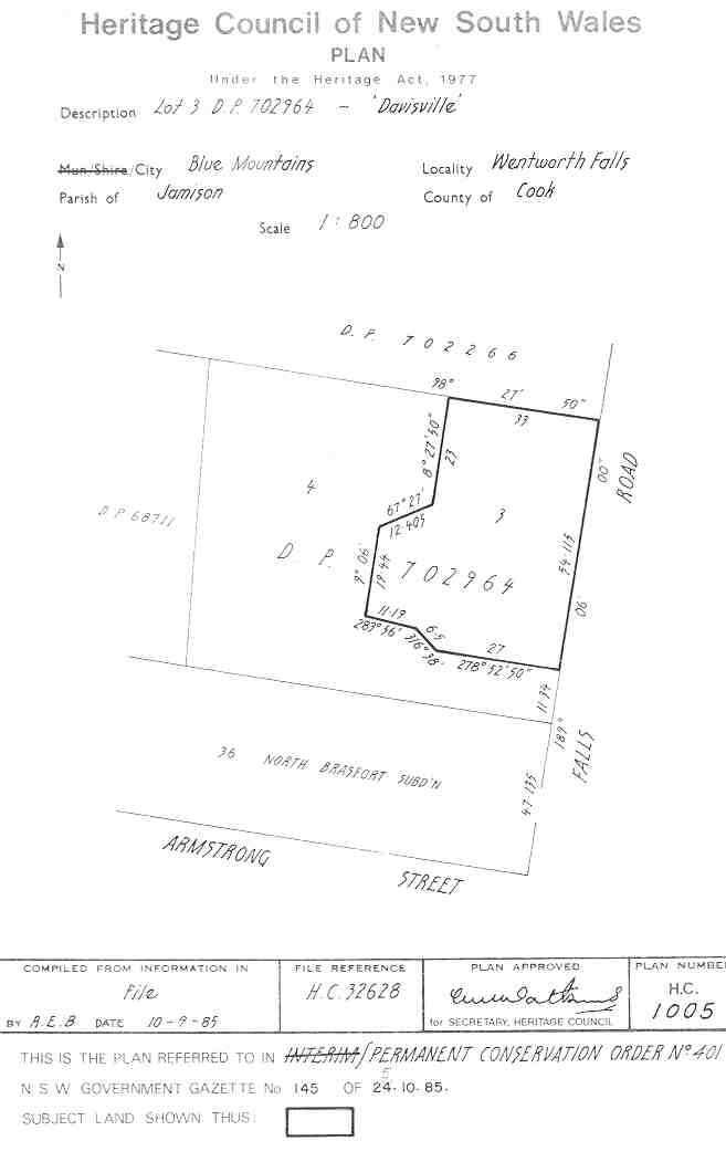 Davisville, Wentworth Falls: PCO Plan Number 401